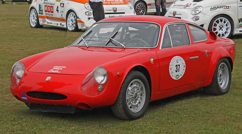 Abarth Simca 2000. The '2Mila' Abarth Simca began life as an Simca 1000 and threw most of it away to be replaced by Abarth body.